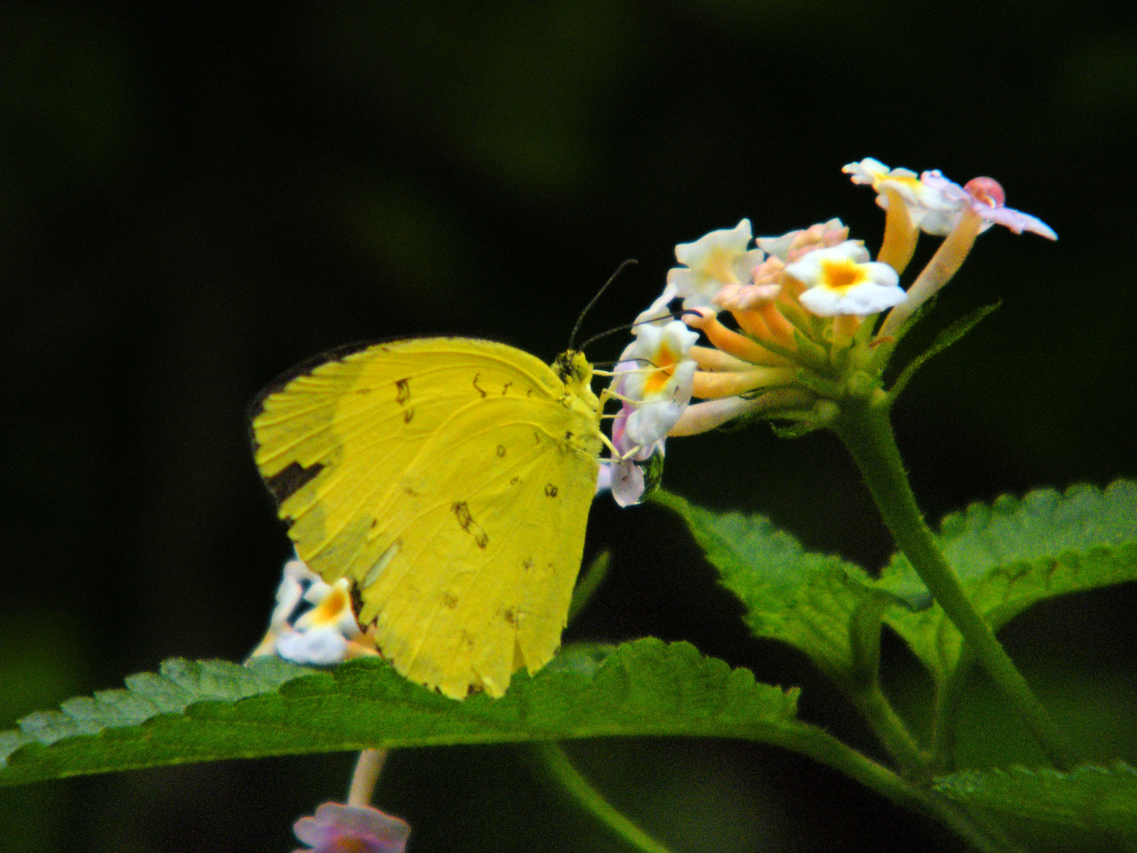 a common grass yellow butterfly, photographed from College of Veterinary and Animal sciences campus, Mannuthy. These are medium sized common butterflies seen all over India